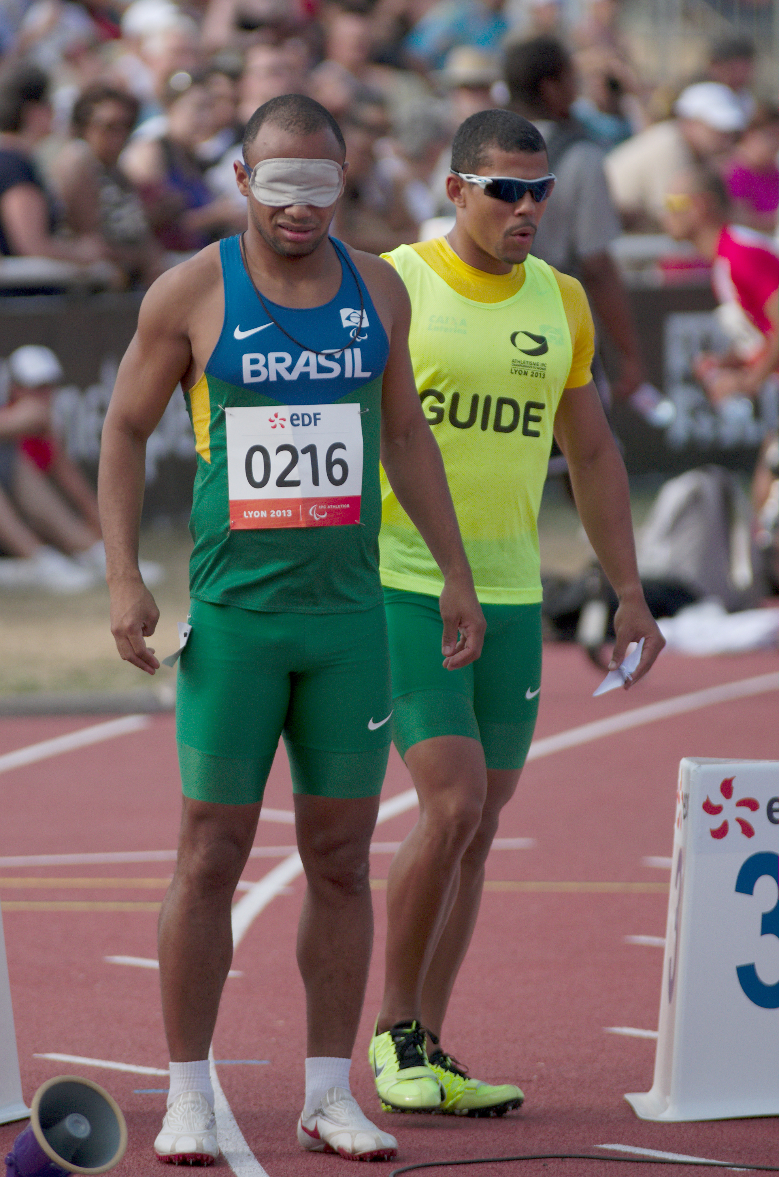 Felipe Gomes and guide Jorge Borges of Brasil preparing for the Men's 100m - T11